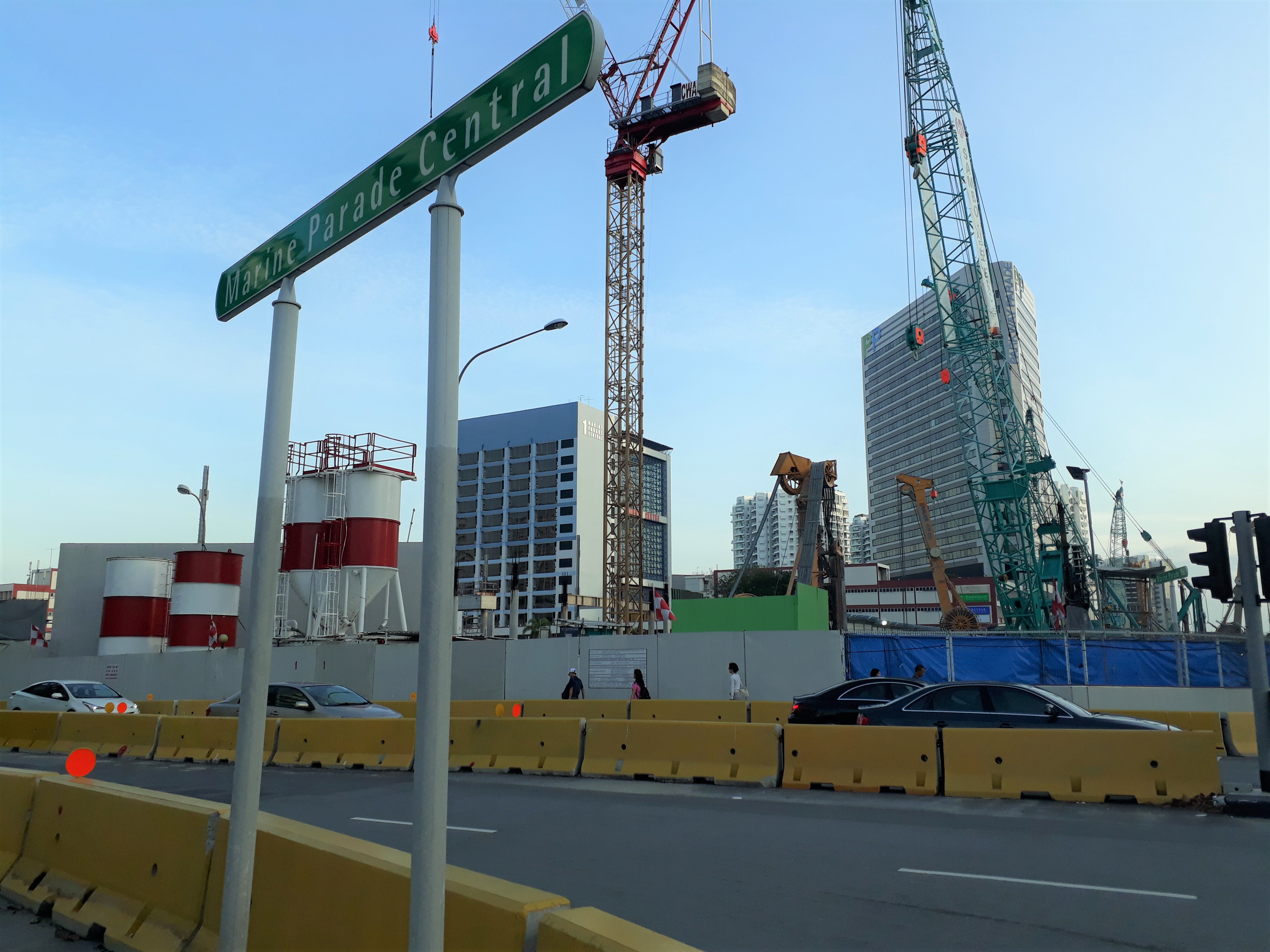 A construction site of Marine Parade near Marine Parade Central